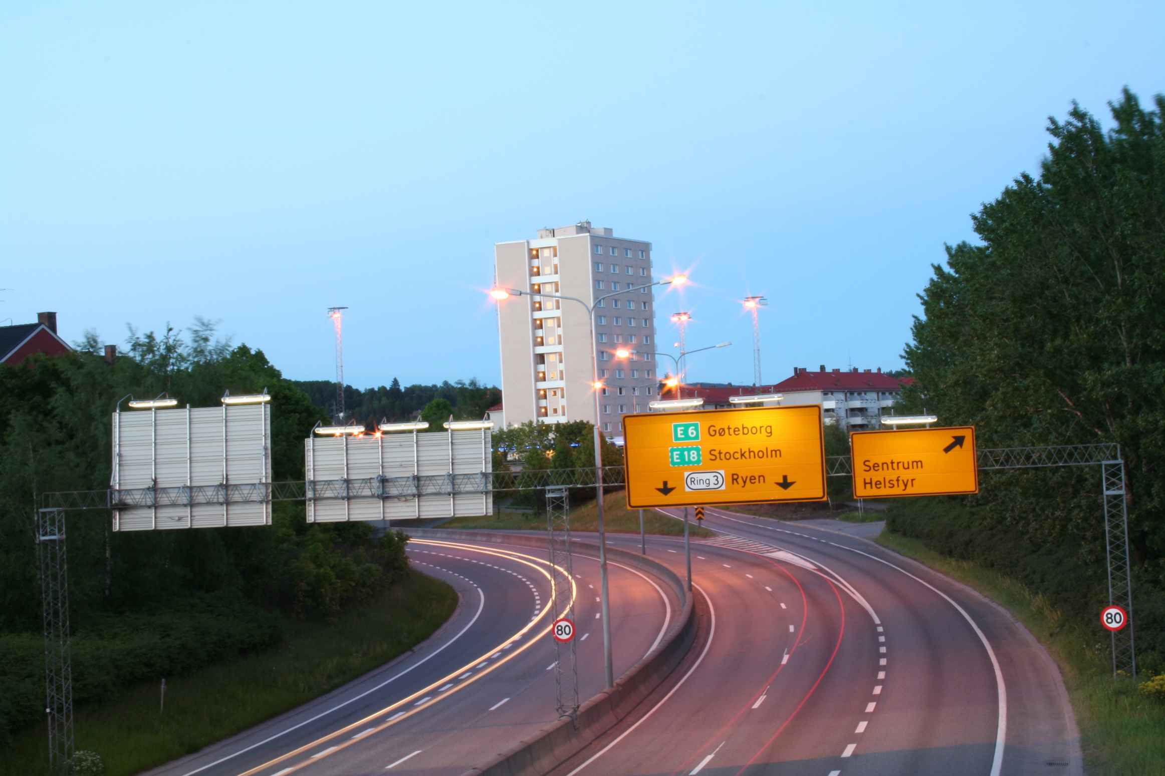 Oslo by night (04:00) during the summer: The road Riksvei 150 (Ring 3). This particular section of the road is shared with E6.